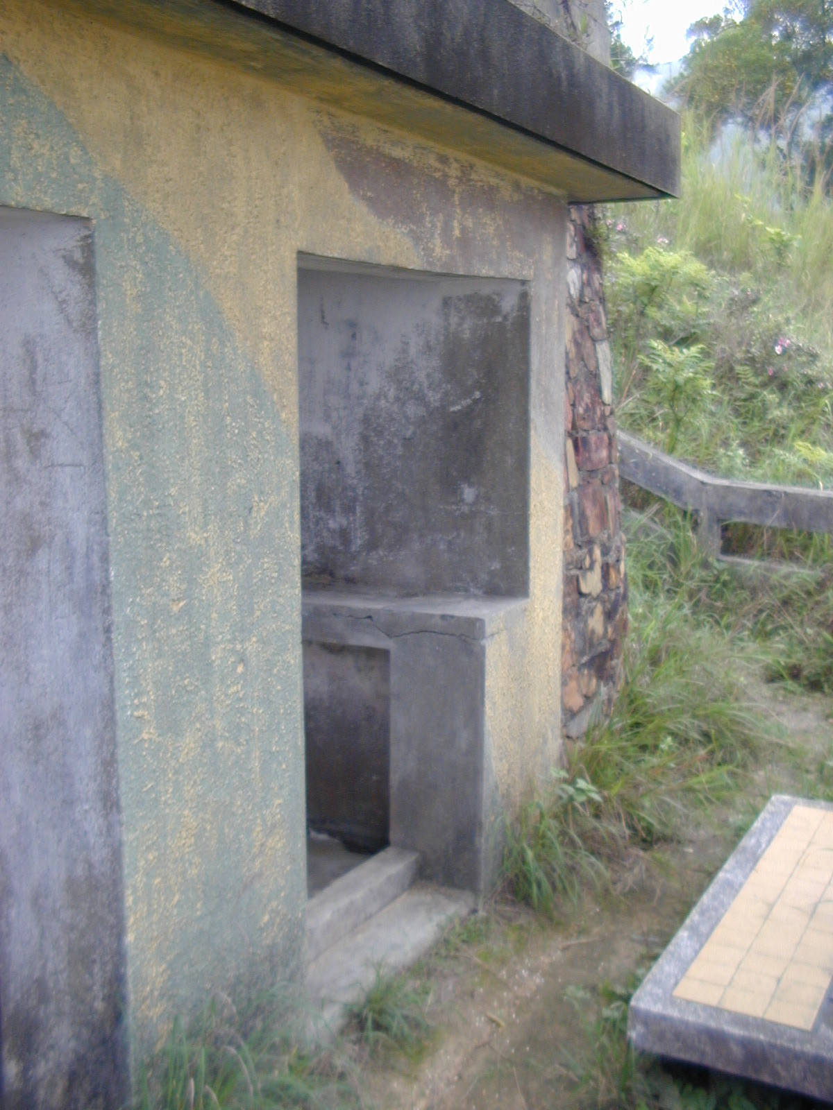 Photo of Lung Fu Shan Pinewood Battery